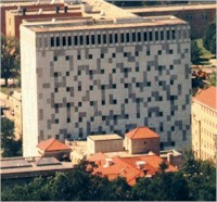 McArdle Laboratory for Cancer Research (1964) at the University of Wisconsin-Madison.